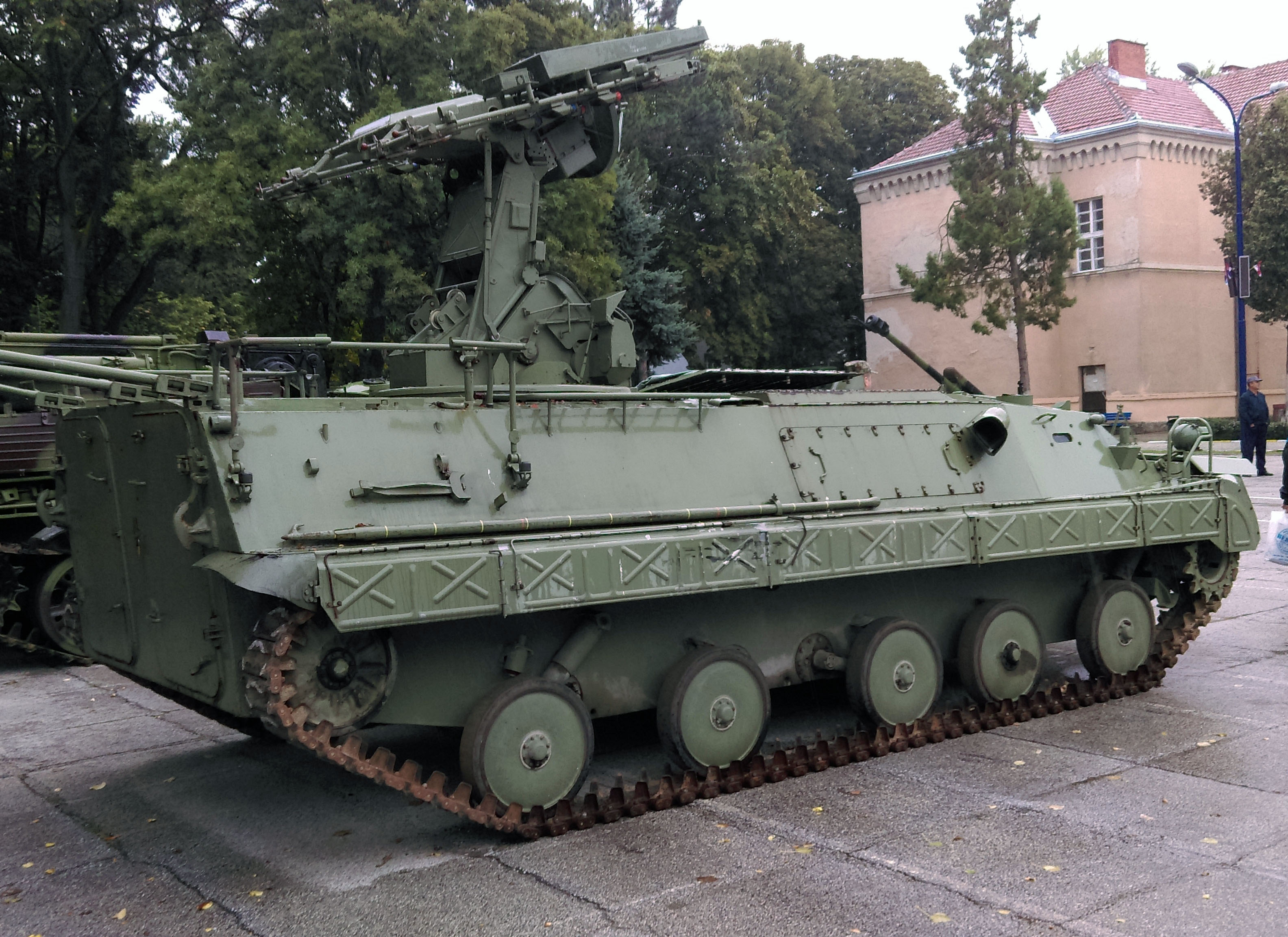 Yugoslav-produced version of Soviet 9K35M Strela-10 SAM - 9K35M2J Strela-10M2J Sava of Serbian army.